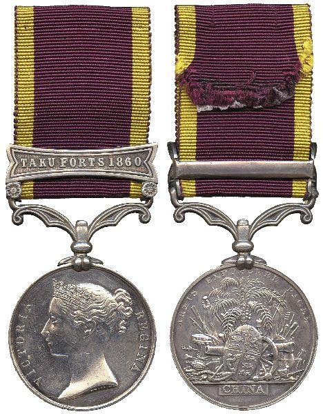 Photograph of an example in my collection